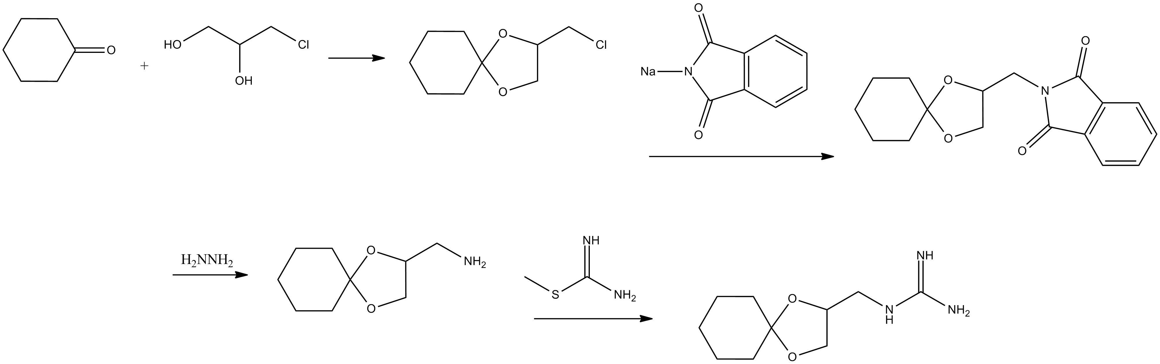 A synthetic scheme for the production of guanadrel is disclosed.